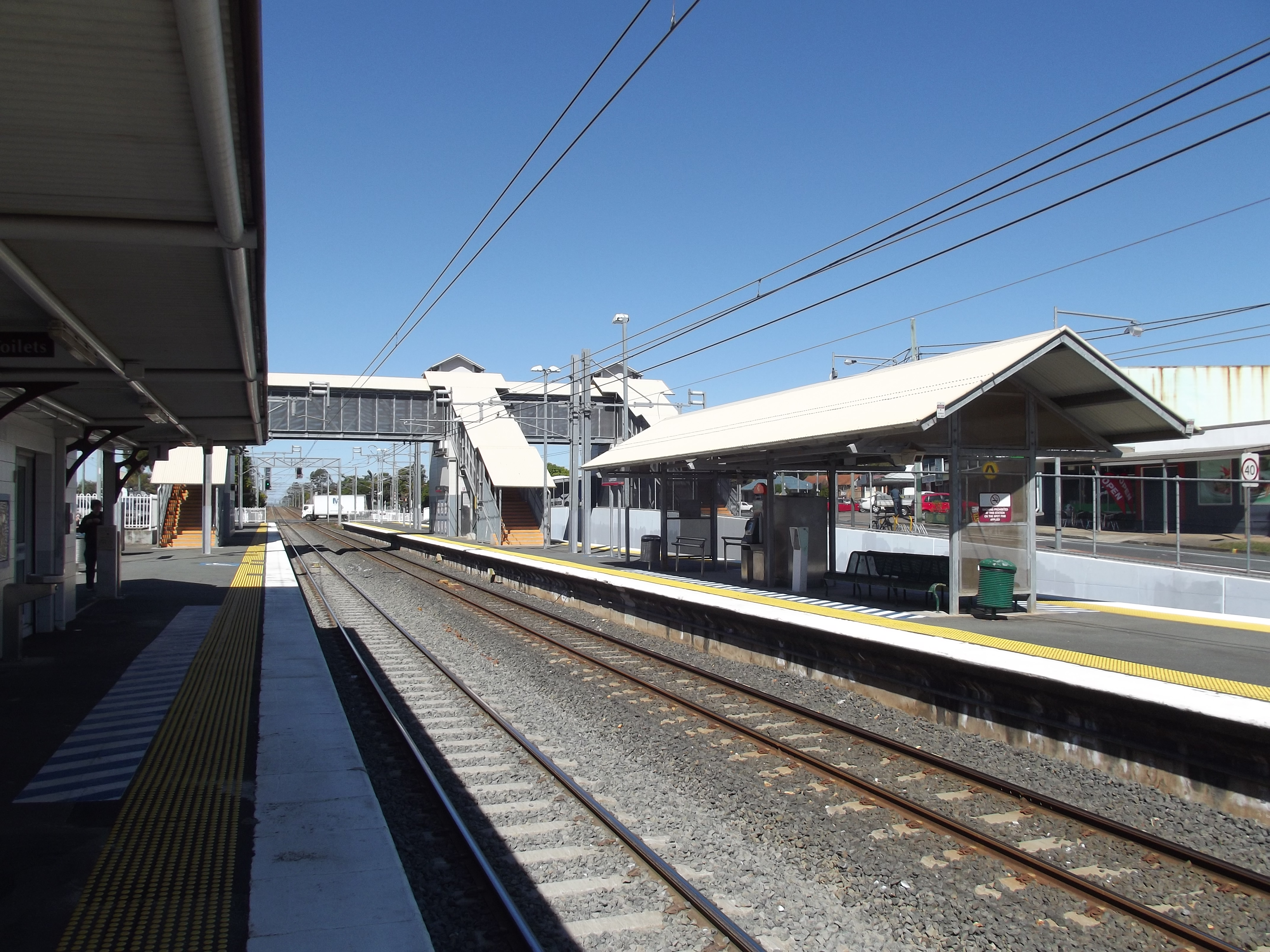 Lawnton station, on the Caboolture line.